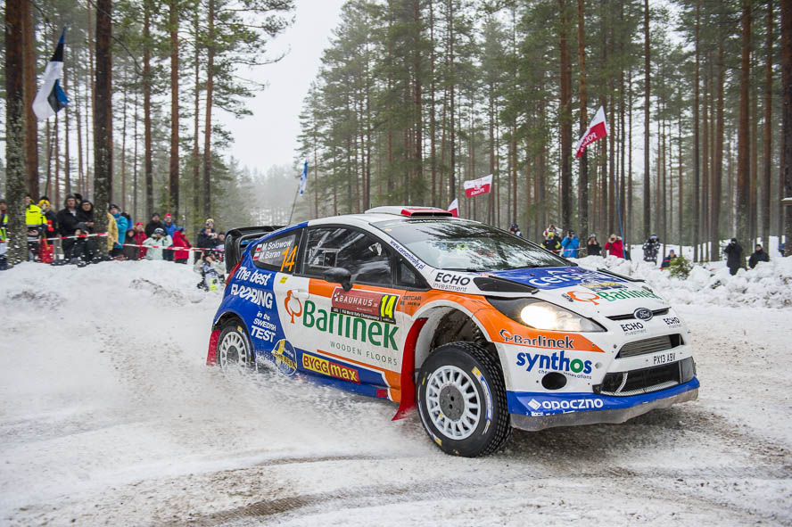 Rally Sweden 2014 Ford Fiesta RS WRC,Fredriksberg 1,M-Sport WRT,M-Sport World Rally Team,Maciej Baran,Michal Solowow,Motorsport,Rally,Rally Sweden,Rallye,Rallye Schweden,SS9,WP9